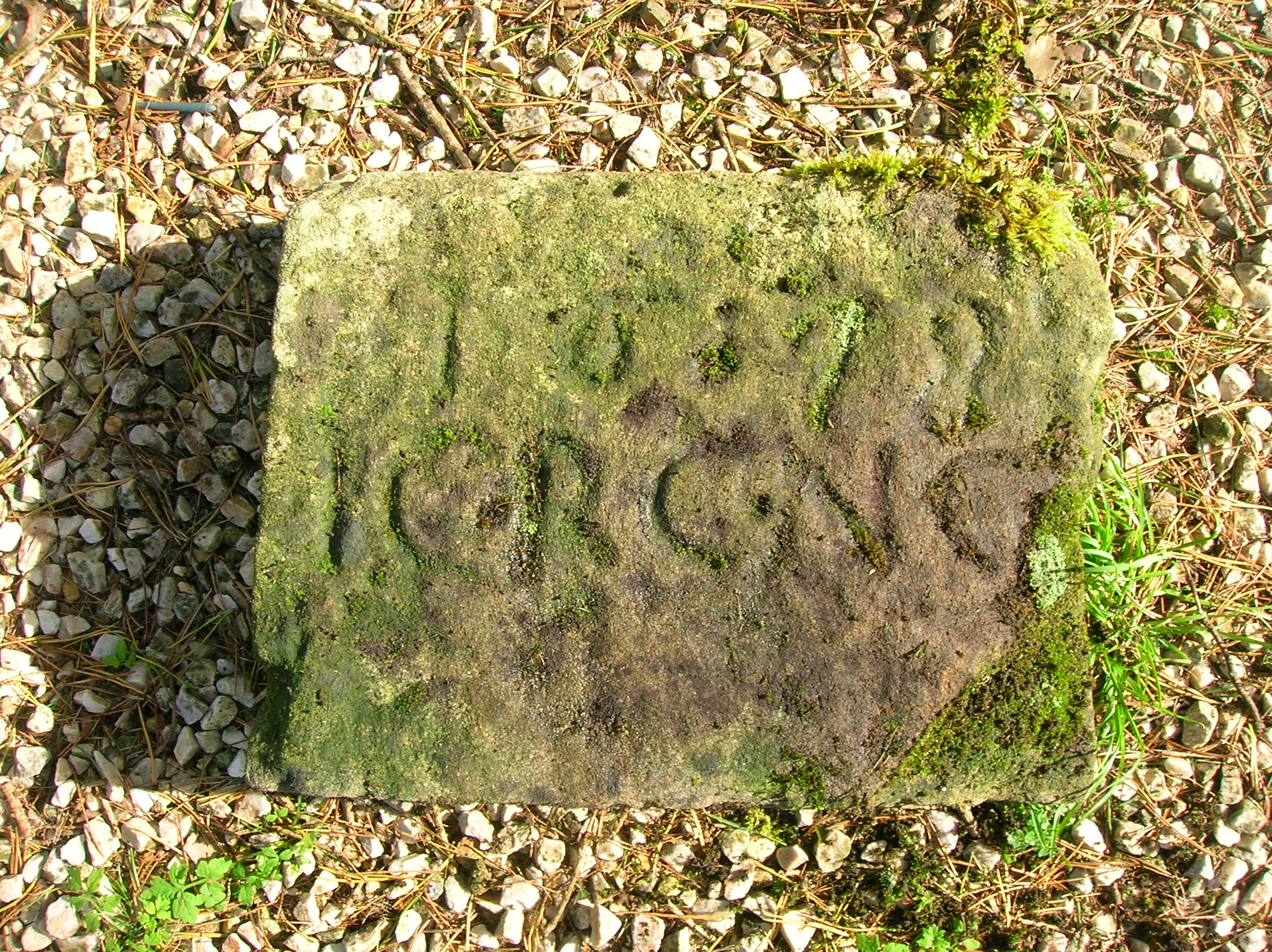 An inscribed stone from Tower Cottage at Achinbathie Tower - 1678 - ICRCNC. A Wallace clan castle site. Renfrewshire, Scotland